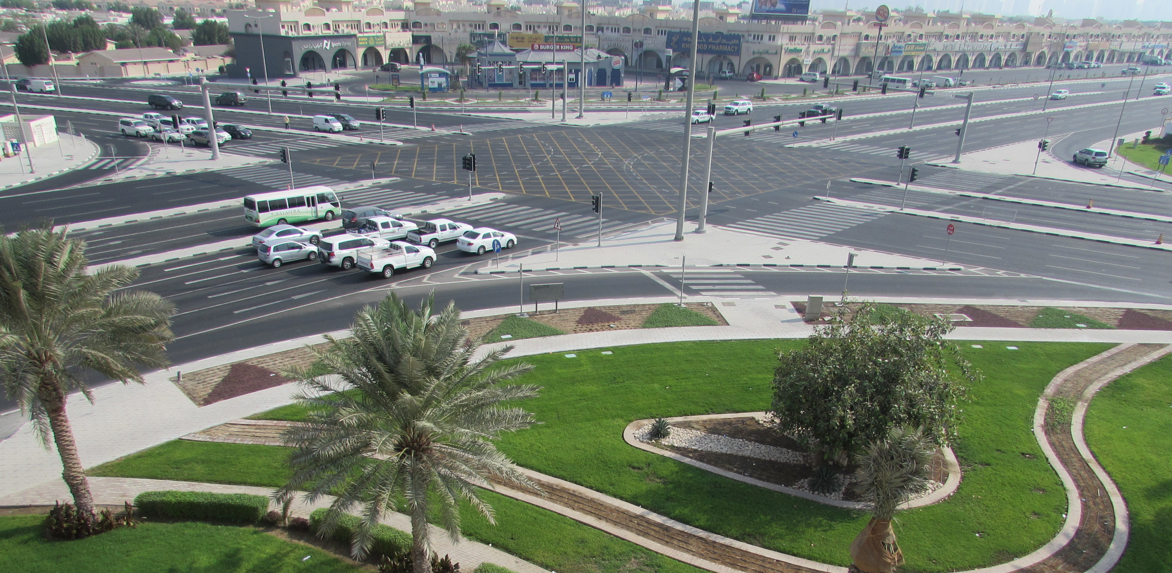 A view of landscaping work done by Lilac Landscapes in Al Markhiya, Doha, Qatar. Al Markhiya Intersection (Al Markhiya Signal) can be seen in the background.